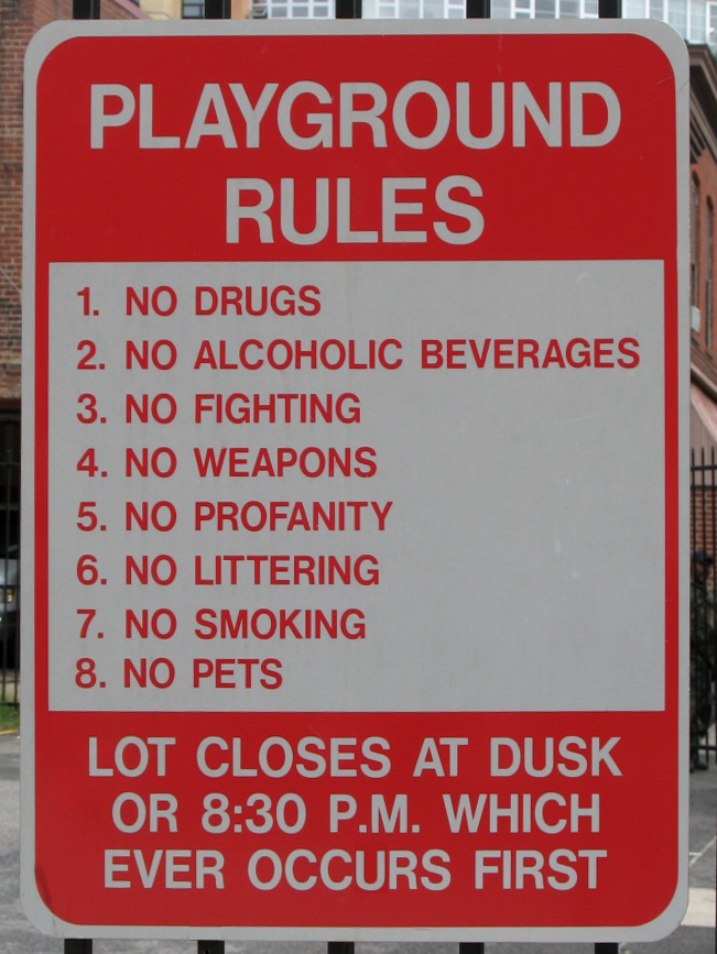 Sign with rules for a playground at V Street NW in Shaw neighborhood of Washington DC.